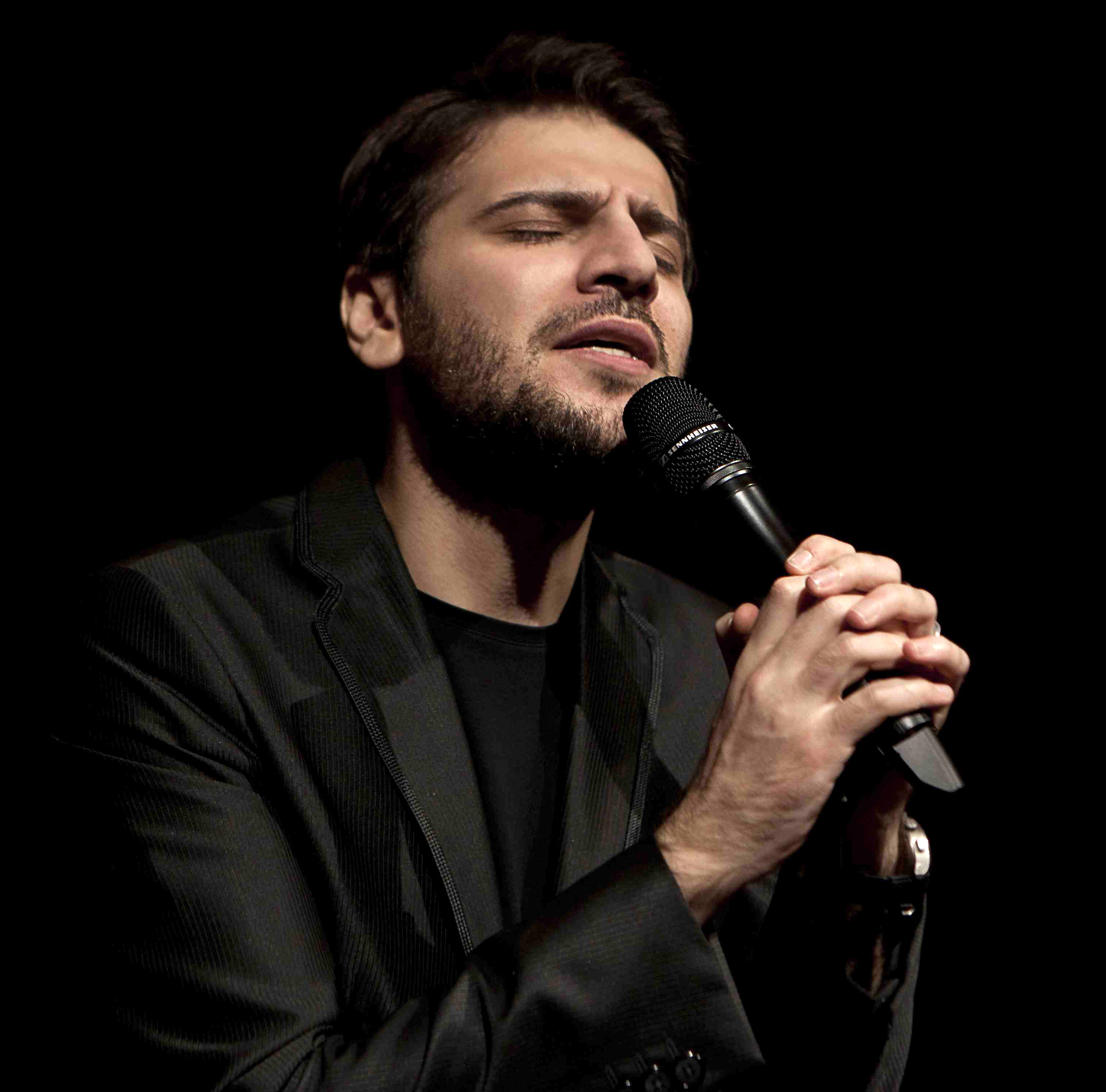 A photograph of musician Sami Yusuf performing at the Prestigious DR koncerthuset in Copenhagen, DENMARK